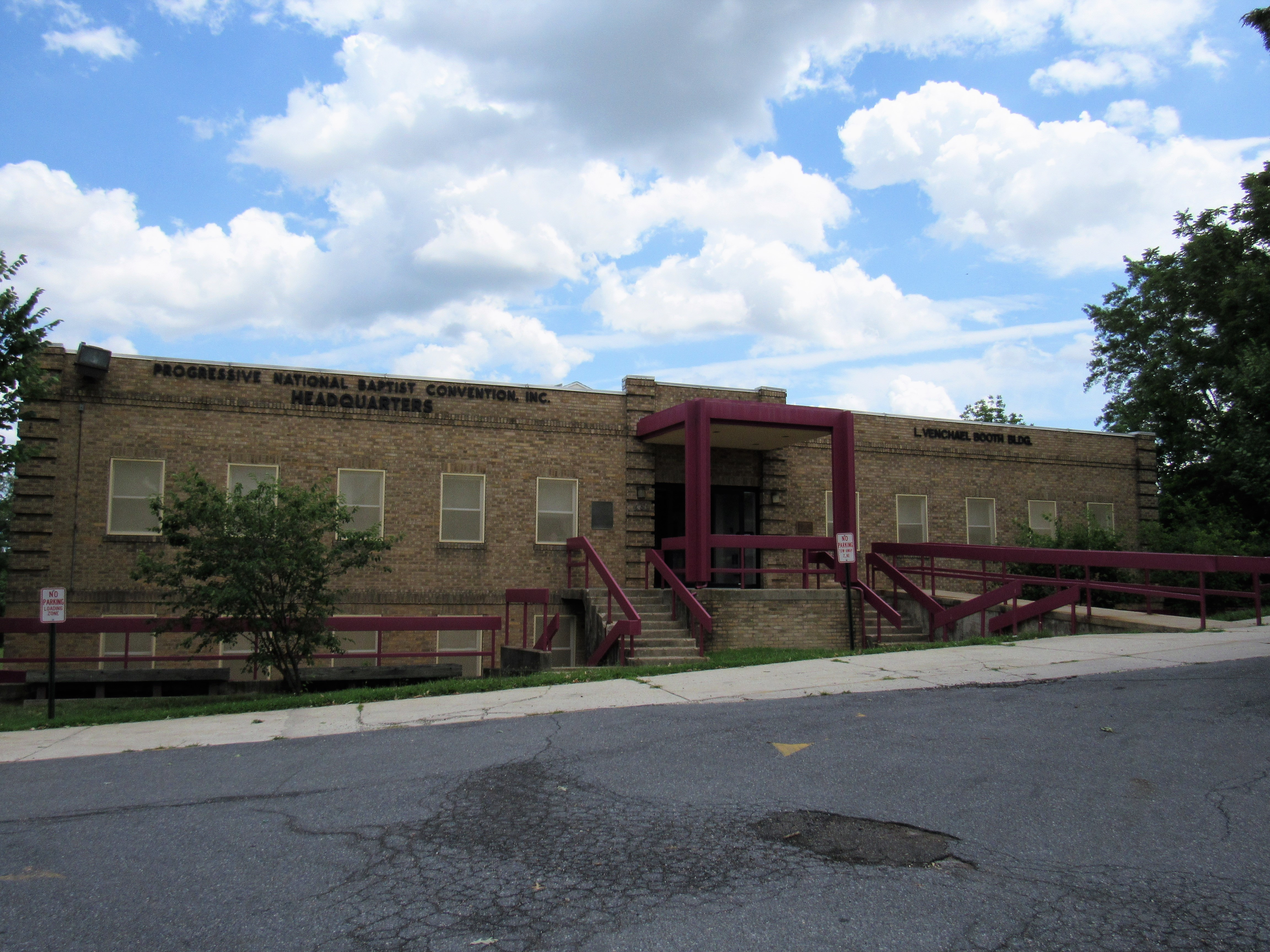 Trades Hall of National Training School for Women and Girls, also known as the Nannie Helen Burroughs School and the headquarters for the Progressive National Baptist Convention.